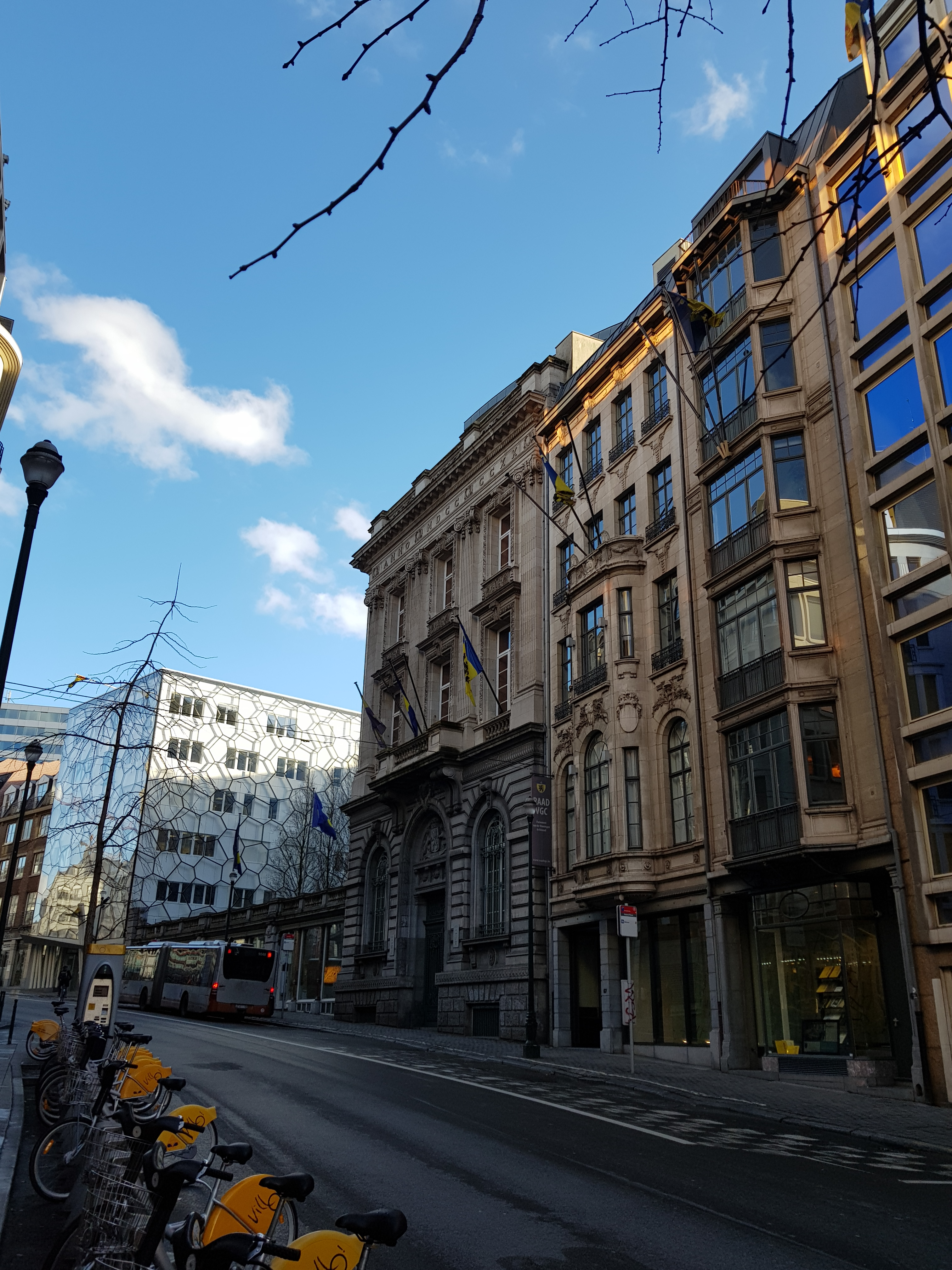 Lombardstraat 77 + 69 + 61-67, Brussels, Belgium